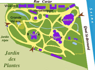 Map of Museum's zoo of Paris (Ménagerie du Jardin des Plantes)